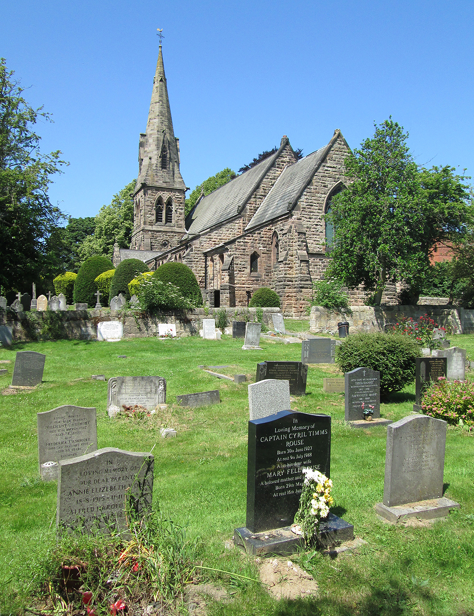 In Quarndon churchyard